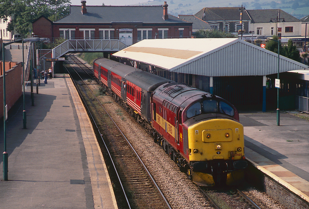 Caerphilly Station. Old diesel train arriving at Caerphilly in 2005.